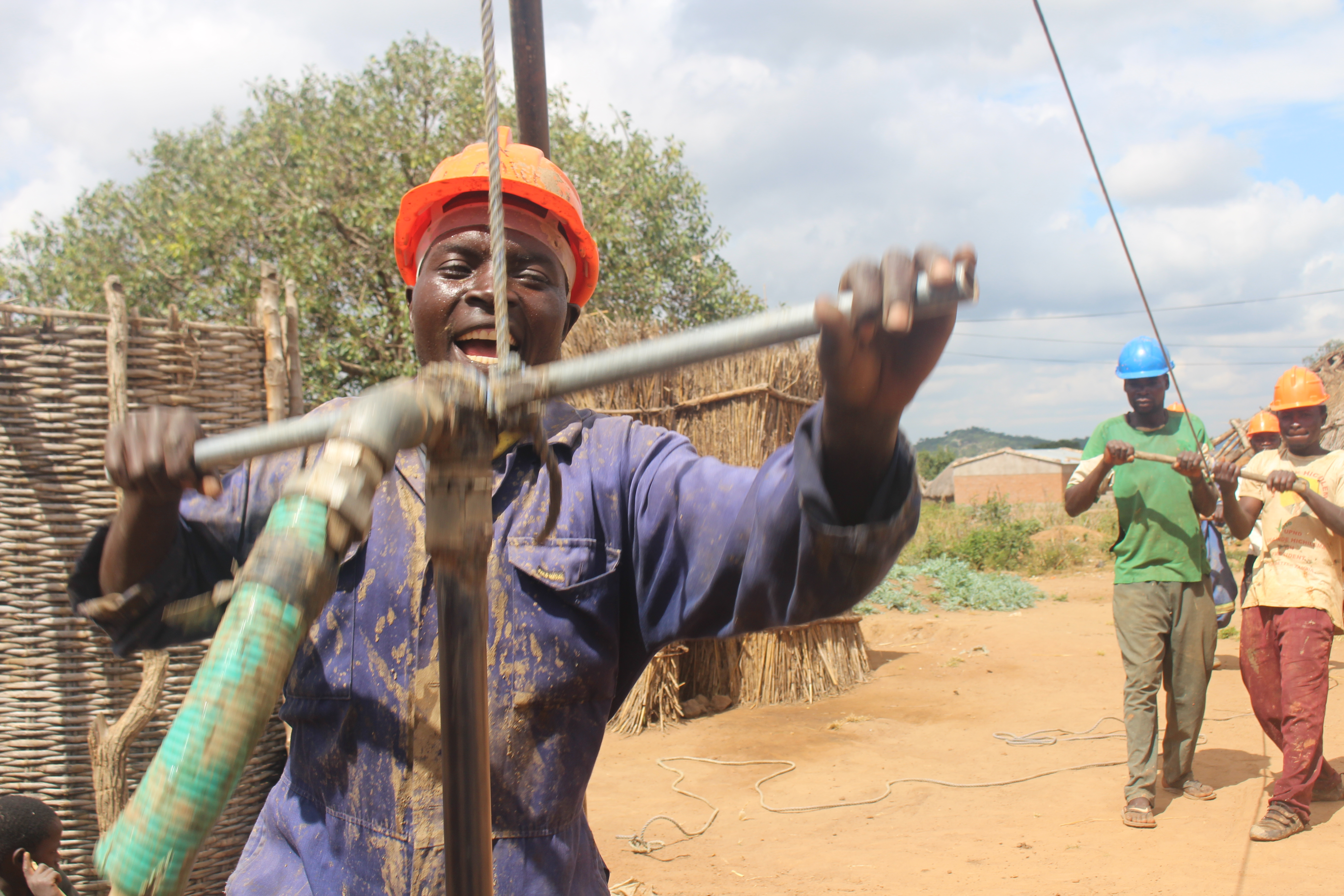 SHIPO drilling